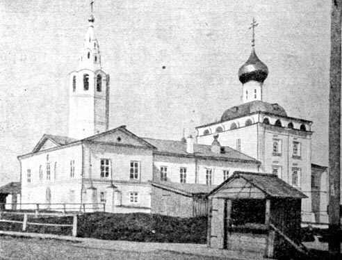 Church of Cyril of Belozersk in Roschenie at Sovetsky Prospekt (Soviet avenue), 37 in Vologda